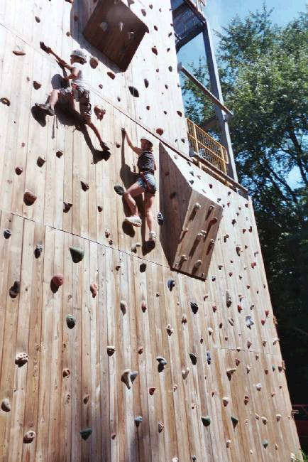 Camp Fitch's 40 foot Climbing Tower